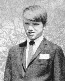 David Kennedy in 1968